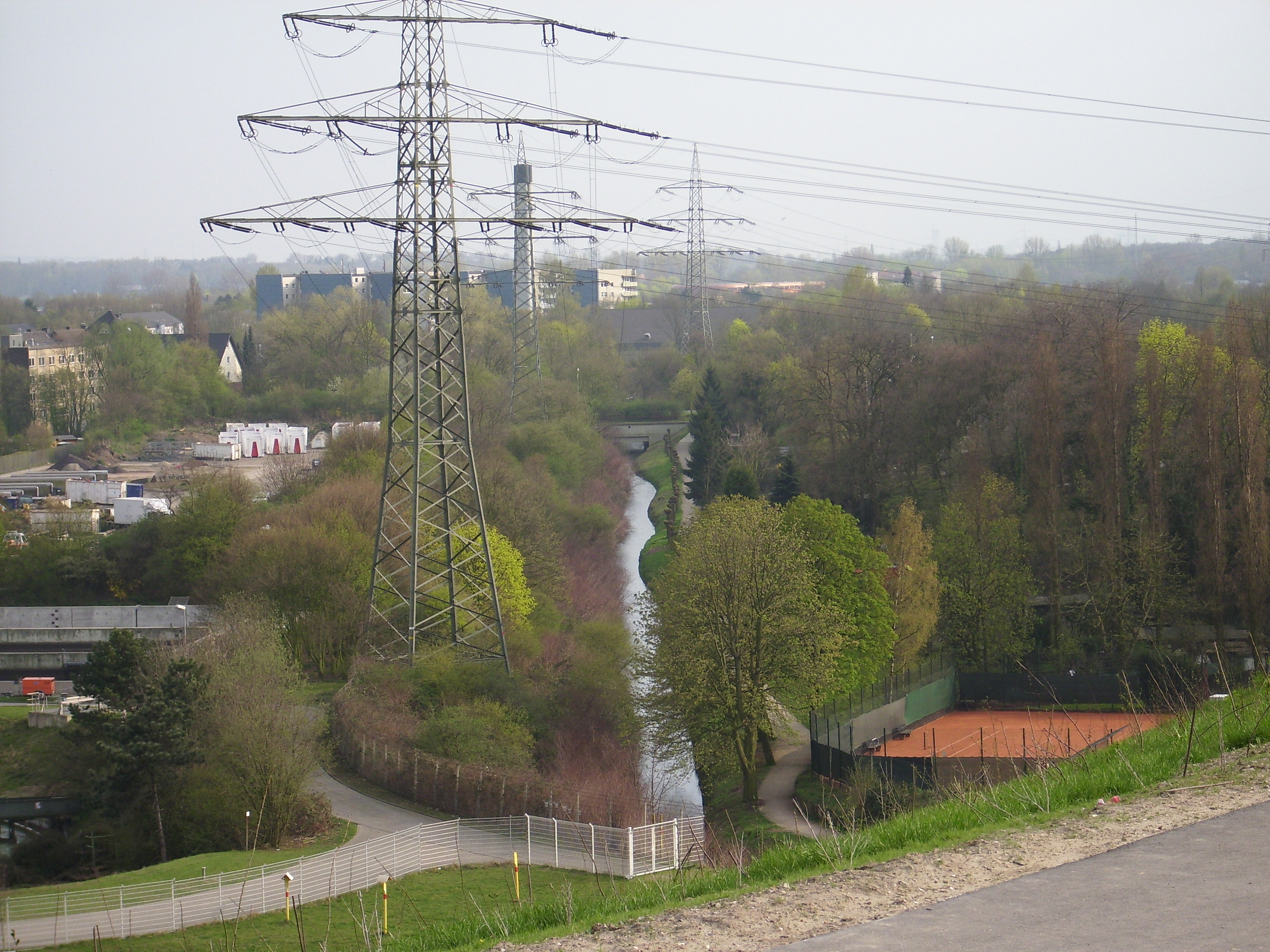 Angerbach at Angerpark in Duisburg-Huckingen (Germany)